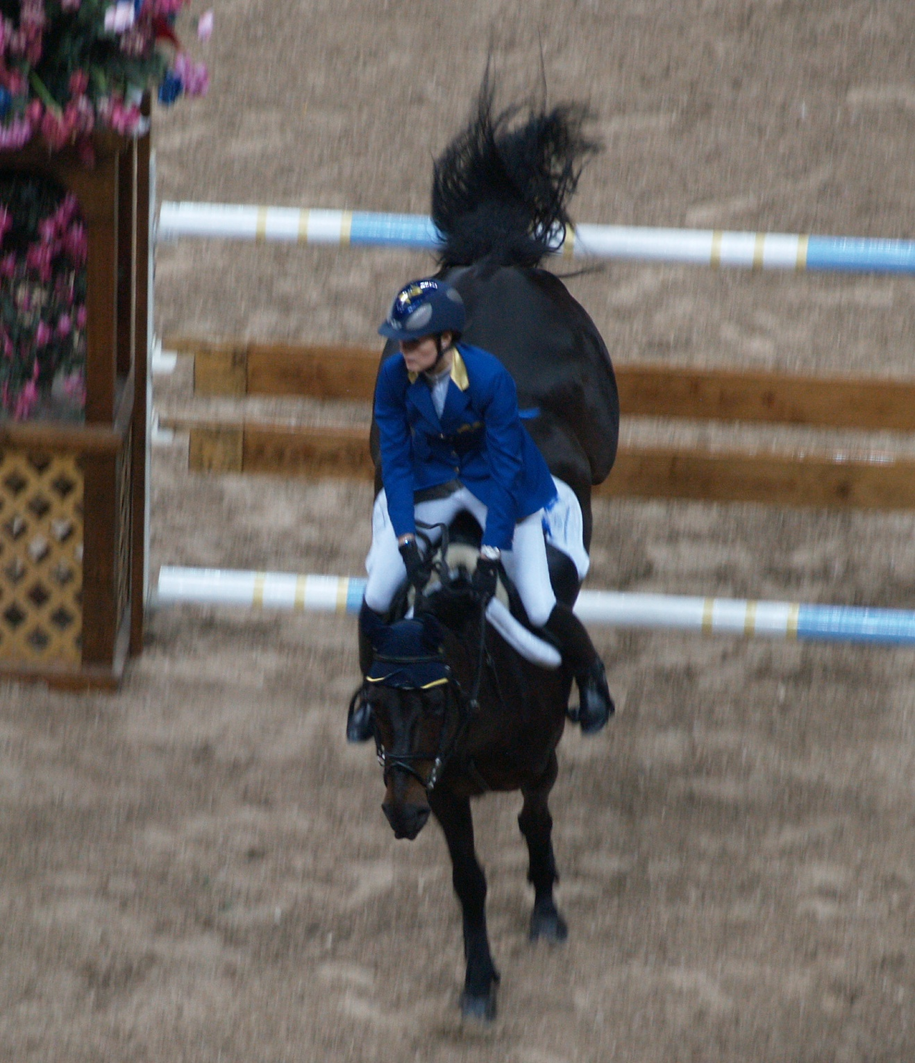 Judy-Ann Melchior representing Belgium riding Grande Dame Z (Oldenburg, Grannus x Lola by Ramino) at the Show Jumping World Cup Final 2007 in Las Vegas